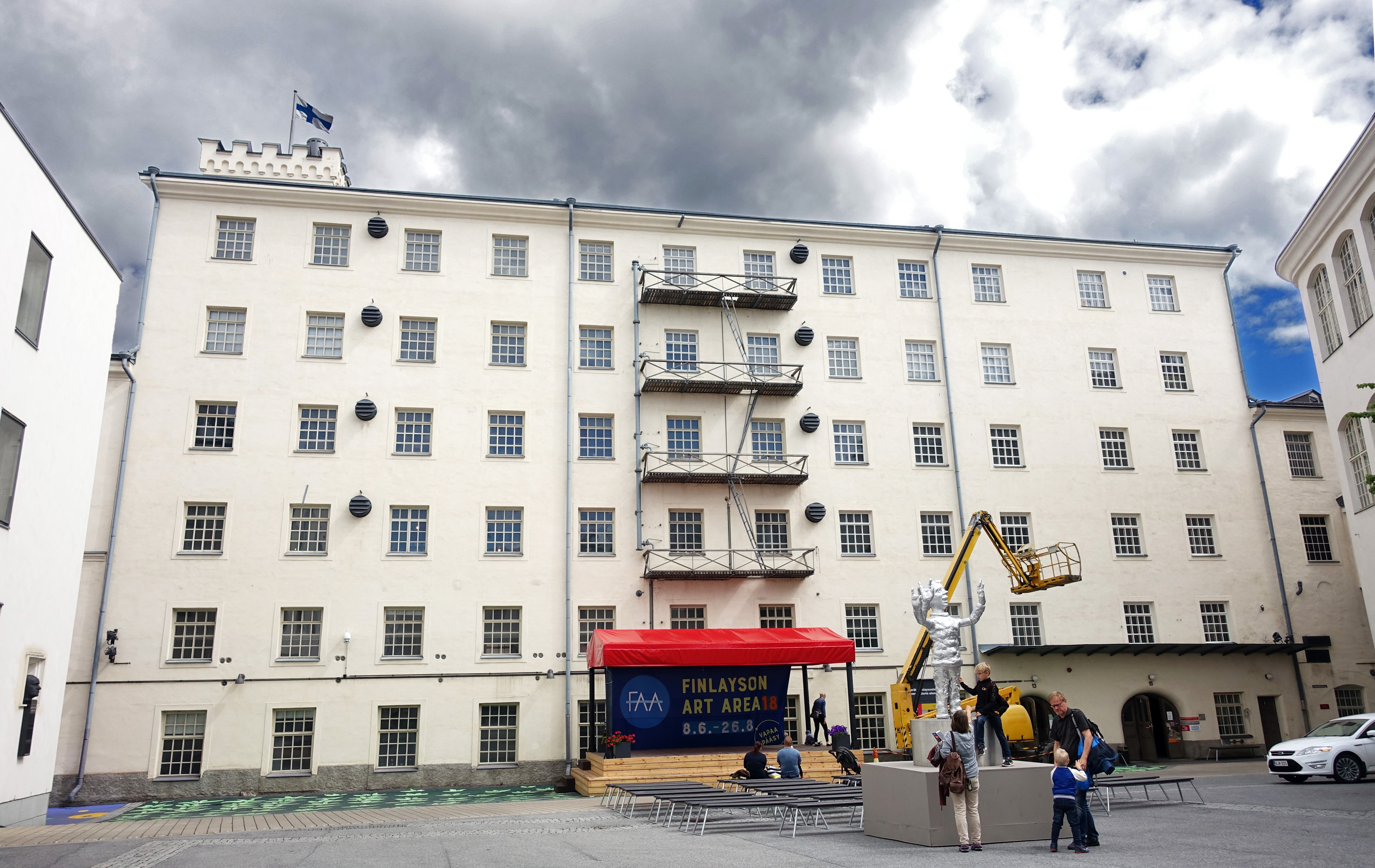 Väinö Linna Square in Tampere, Finland.